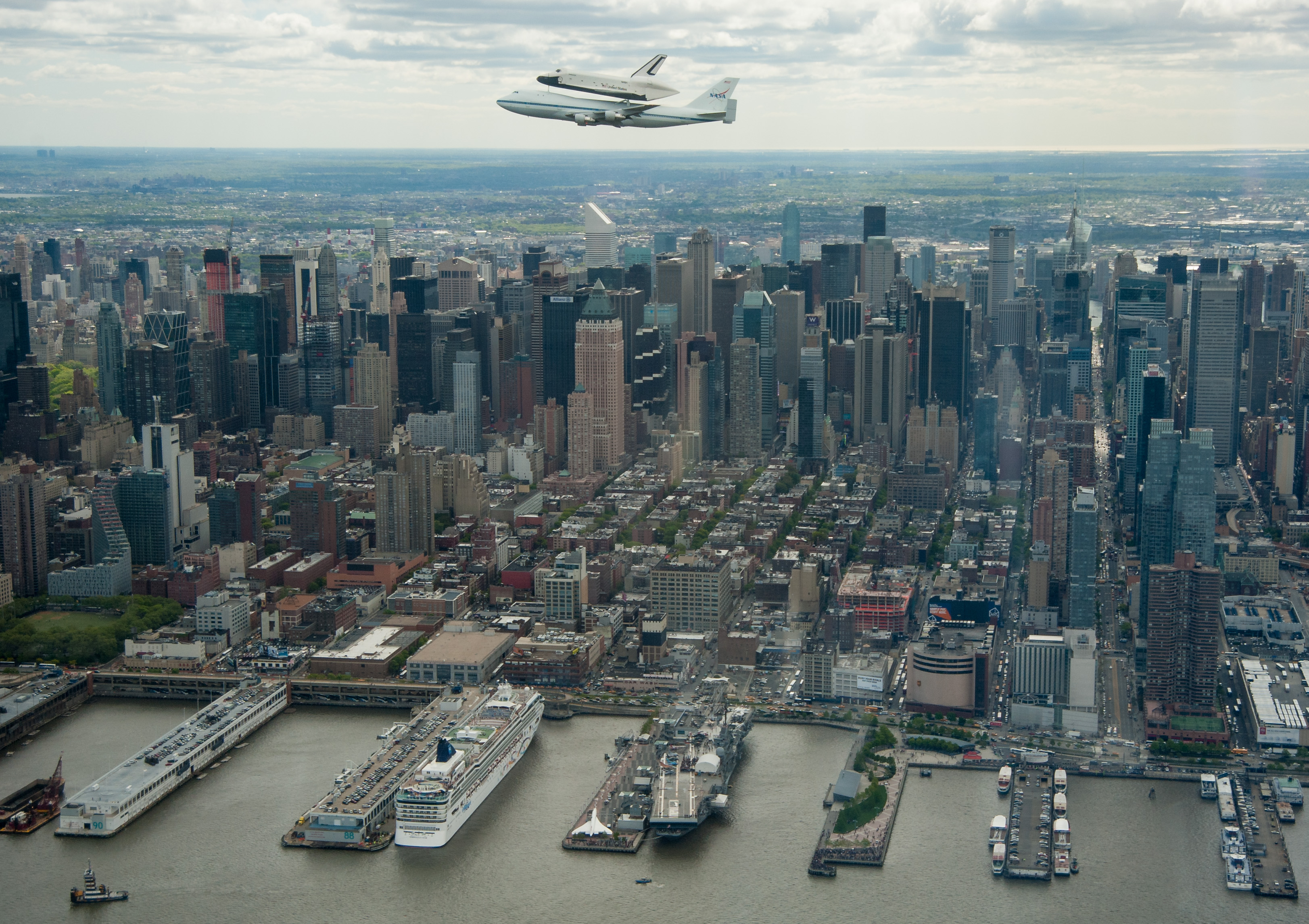 Space shuttle Enterprise, mounted atop a NASA 747 Shuttle Carrier Aircraft (SCA), is seen as it flies near the Intrepid Sea, Air and Space Museum, Friday, April 27, 2012, in New York. Enterprise was the first shuttle orbiter built for NASA performing test flights in the atmosphere and was incapable of spaceflight. Originally housed at the Smithsonian's Steven F. Udvar-Hazy Center, Enterprise will be demated from the SCA and placed on a barge that will eventually be moved by tugboat up the Hudson River to the Intrepid Sea, Air & Space Museum in June. Photo Credit: (NASA/Robert Markowitz)